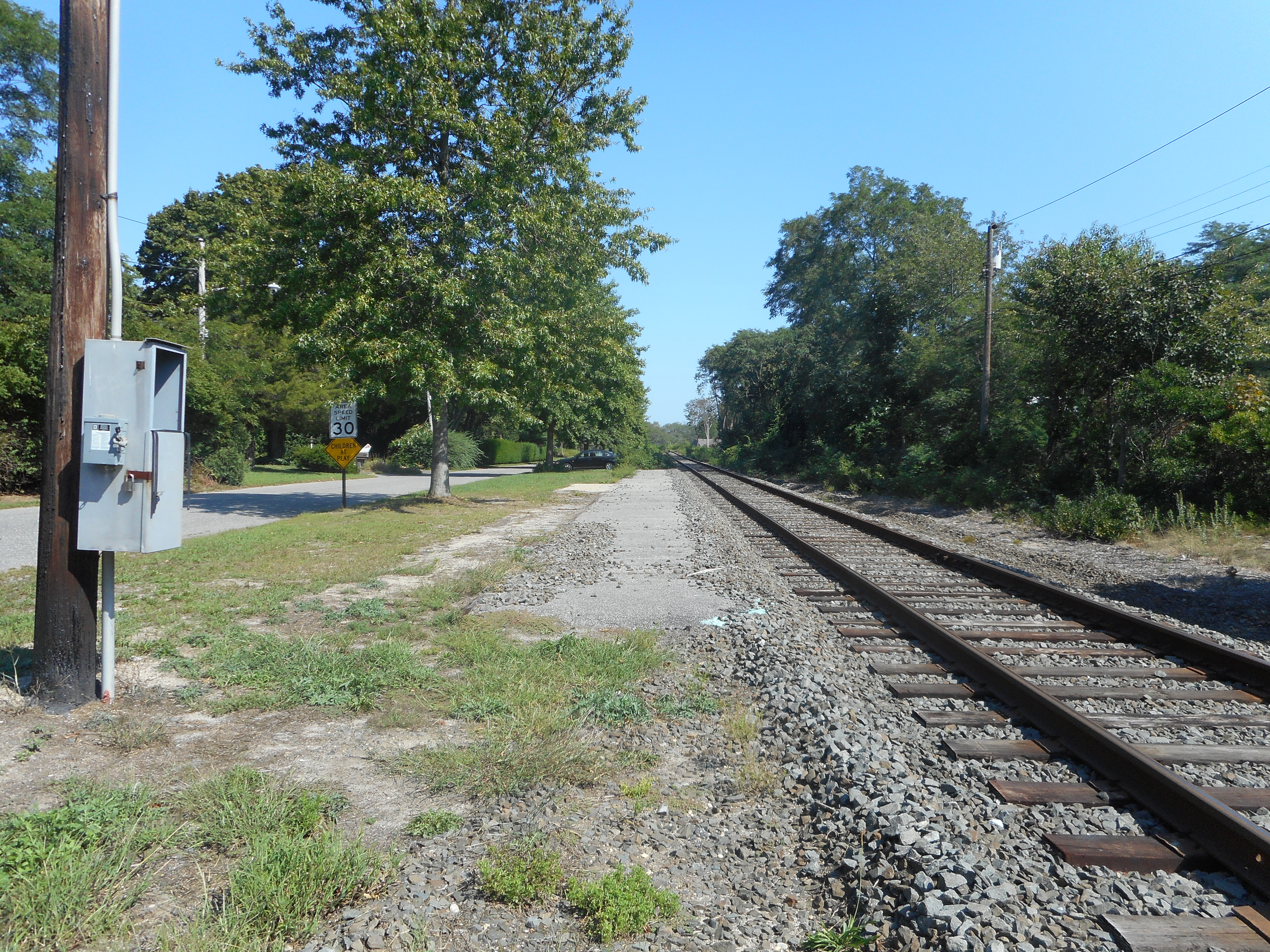 The second capture of the eastbound view of the Main Line of the Long Island Rail Road from the former site of the Jamesport LIRR station in Jamesport, New York. Until 1985 you could take this to Mattituck, Southold, or Greenport Stations. This was taken from east of the grade crossing for Washington Avenue, so I could get a closer shot the platform on the left, along North Railroad Avenue.